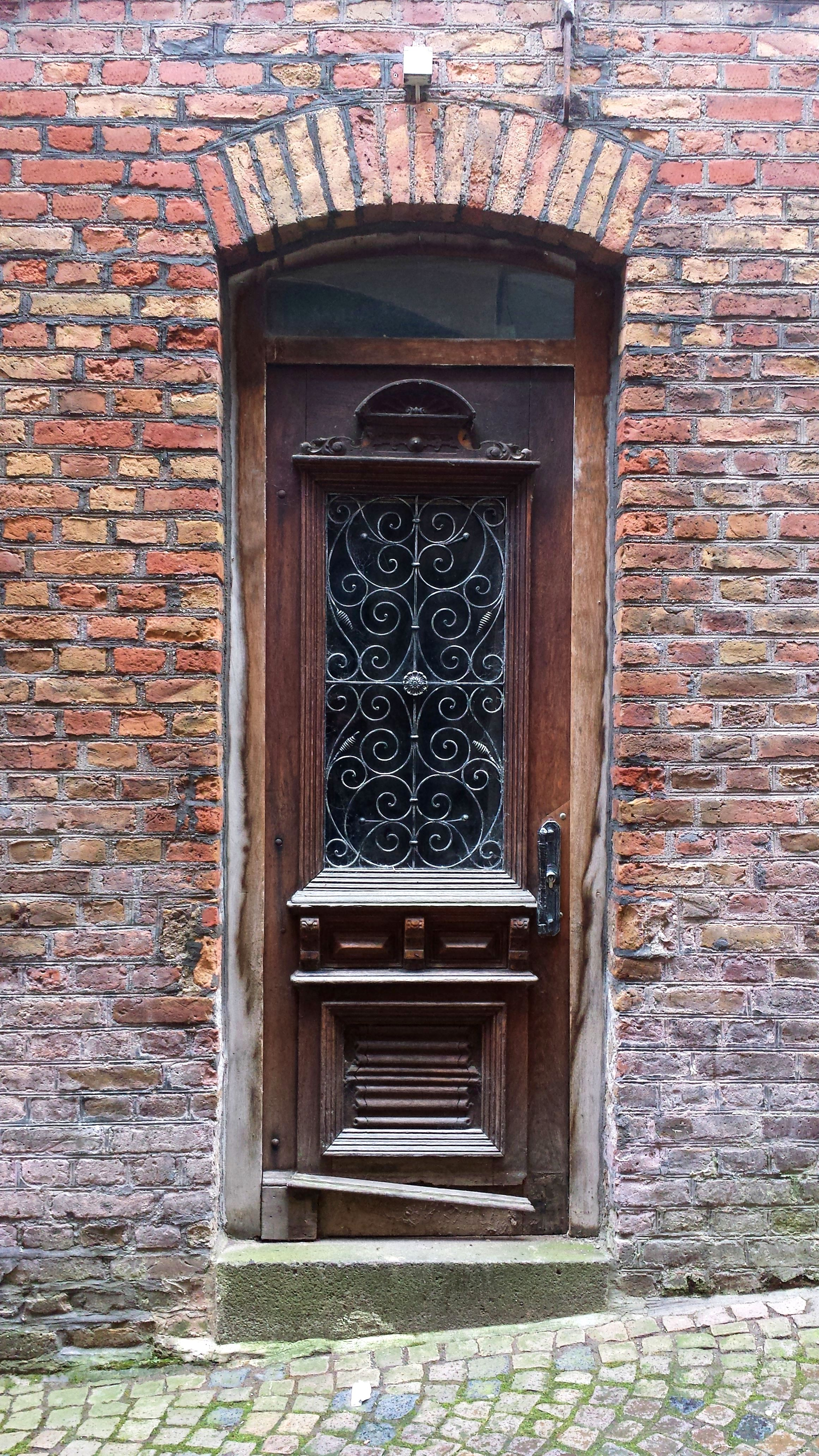 Preserved entrance door of the former post office in the Kornreich building on the market square in Cochem (today located in Kirchgasse)